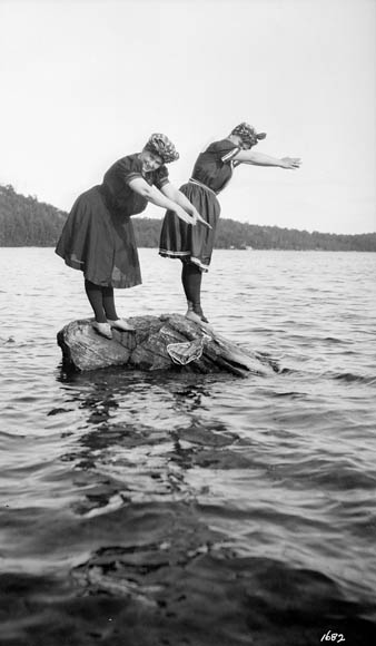 "Bathing beauties", Muskoka, Ontario